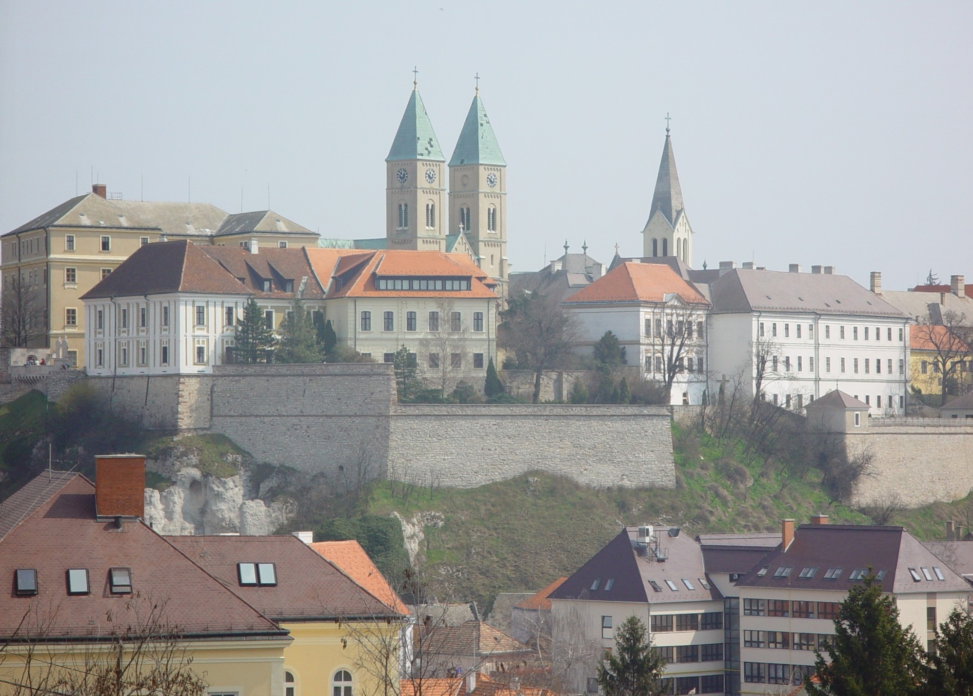 Castle of Veszprém